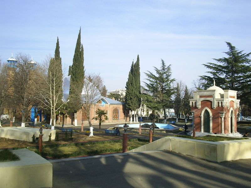 Shakh Abbas Mosque in Ganja, Azerbaijan. Picture taken by me in summer 2006.